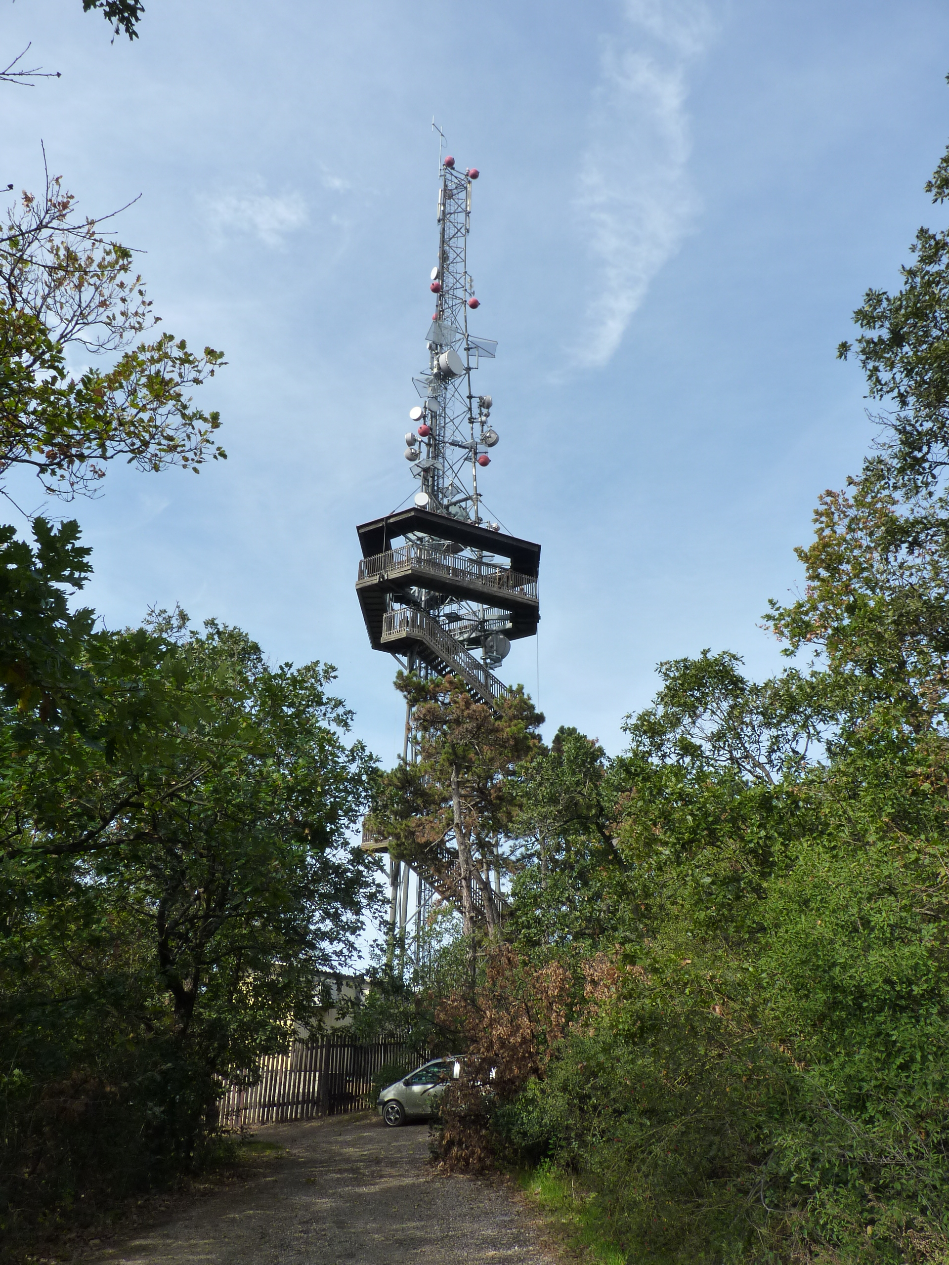 Anna Hill observation tower